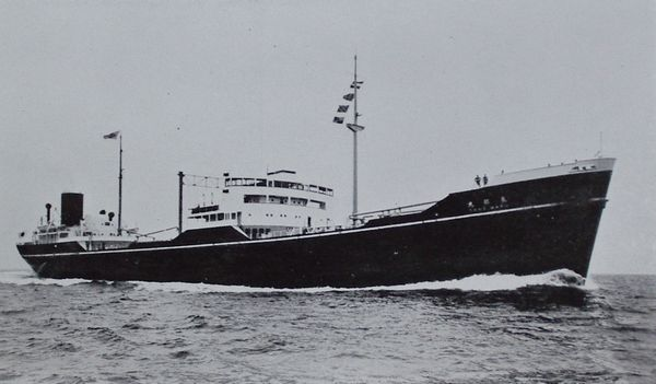 Iino Line, Kawasaki type tanker Tōhō Maru